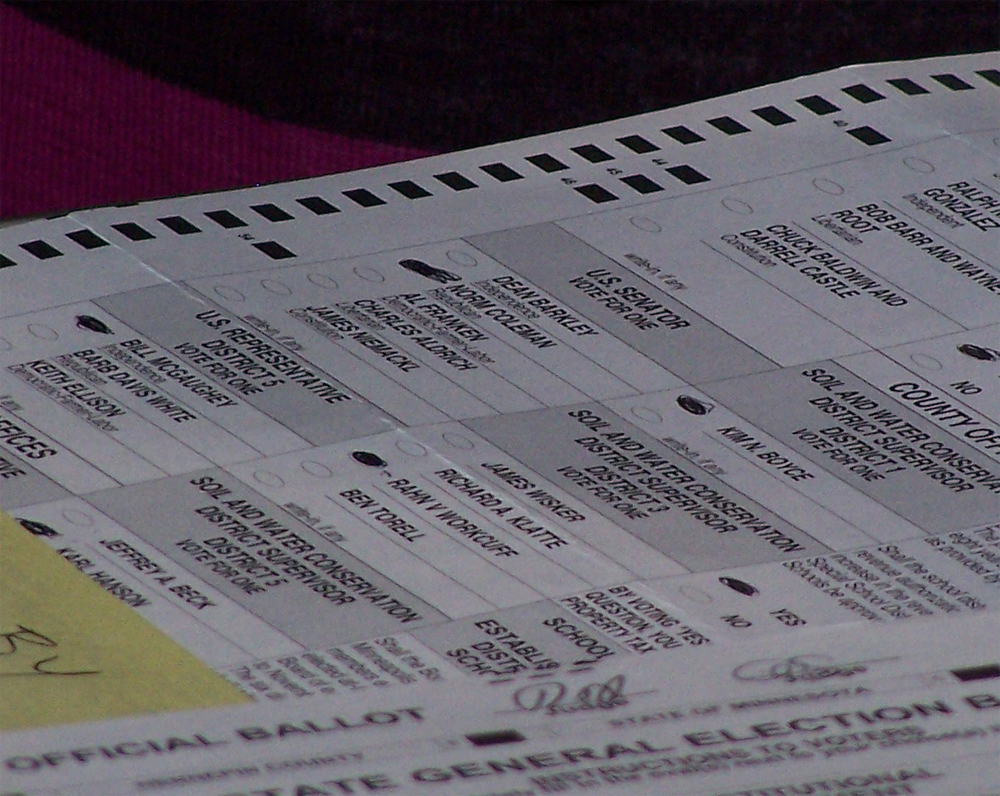 A ballot for Norm Coleman from Hennepin County that was challenged by the Franken campaign. It is currently unknown if this ballot challenge was successful.